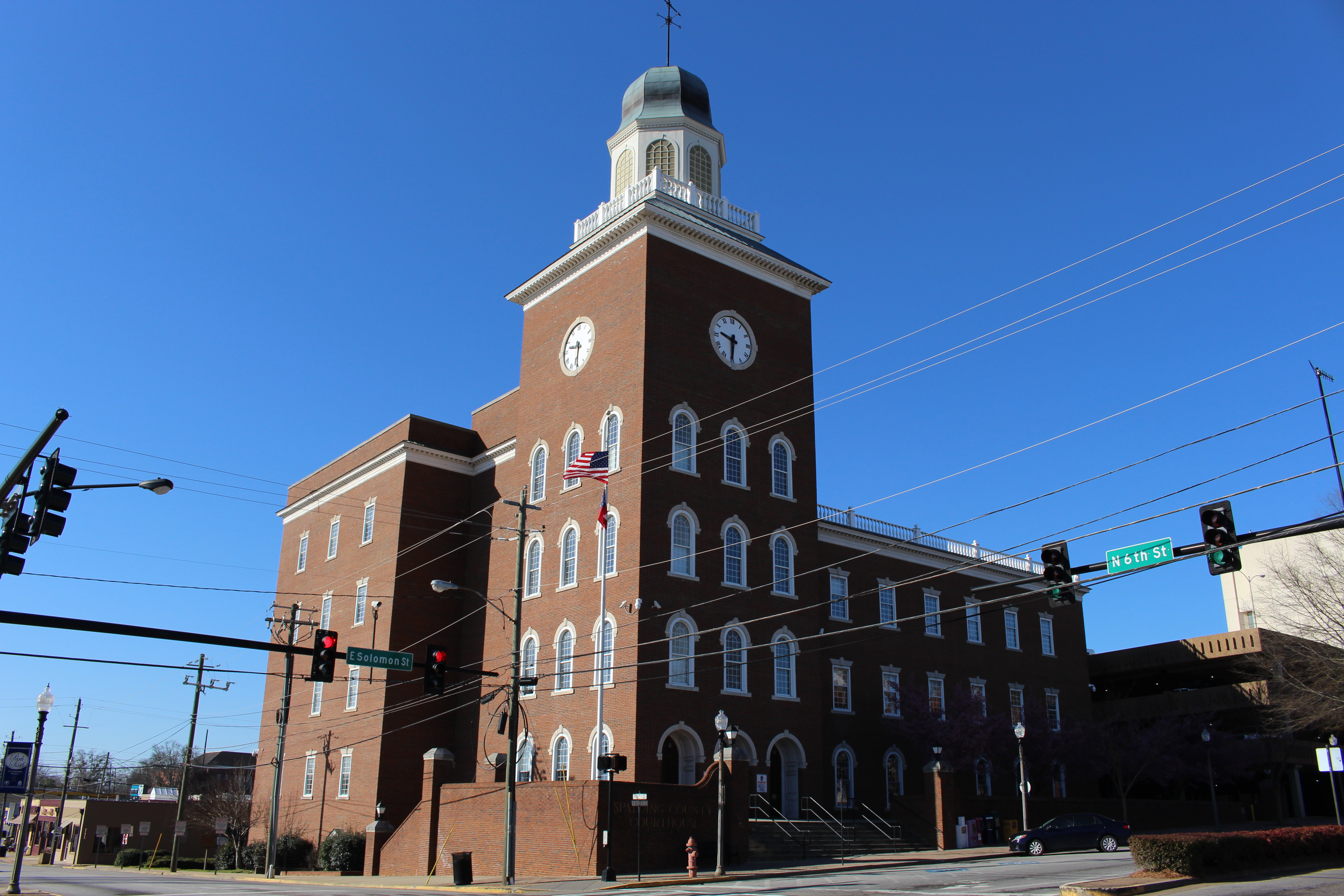 Spalding County Courthouse (NE corner), Griffin, Spalding County, Georgia